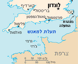 Channelislands in hebrew